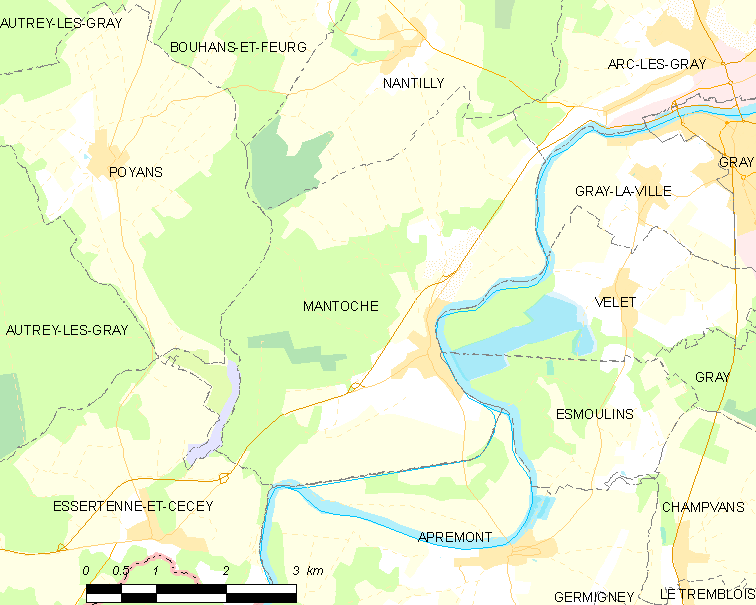 Map of French municipality